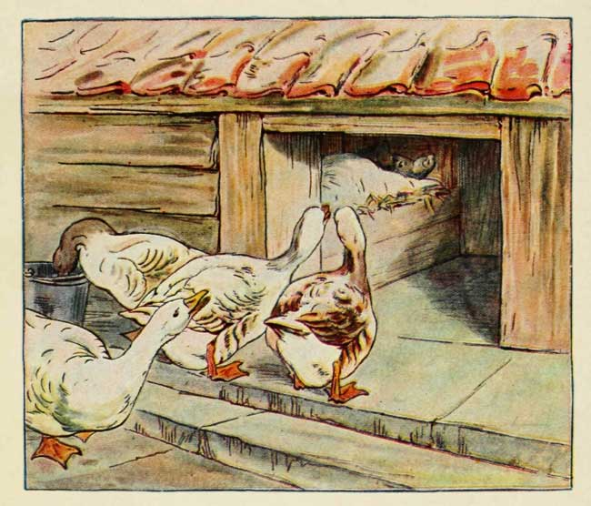 Illustration from children's book Cecily Parsley's Nursery Rhymes